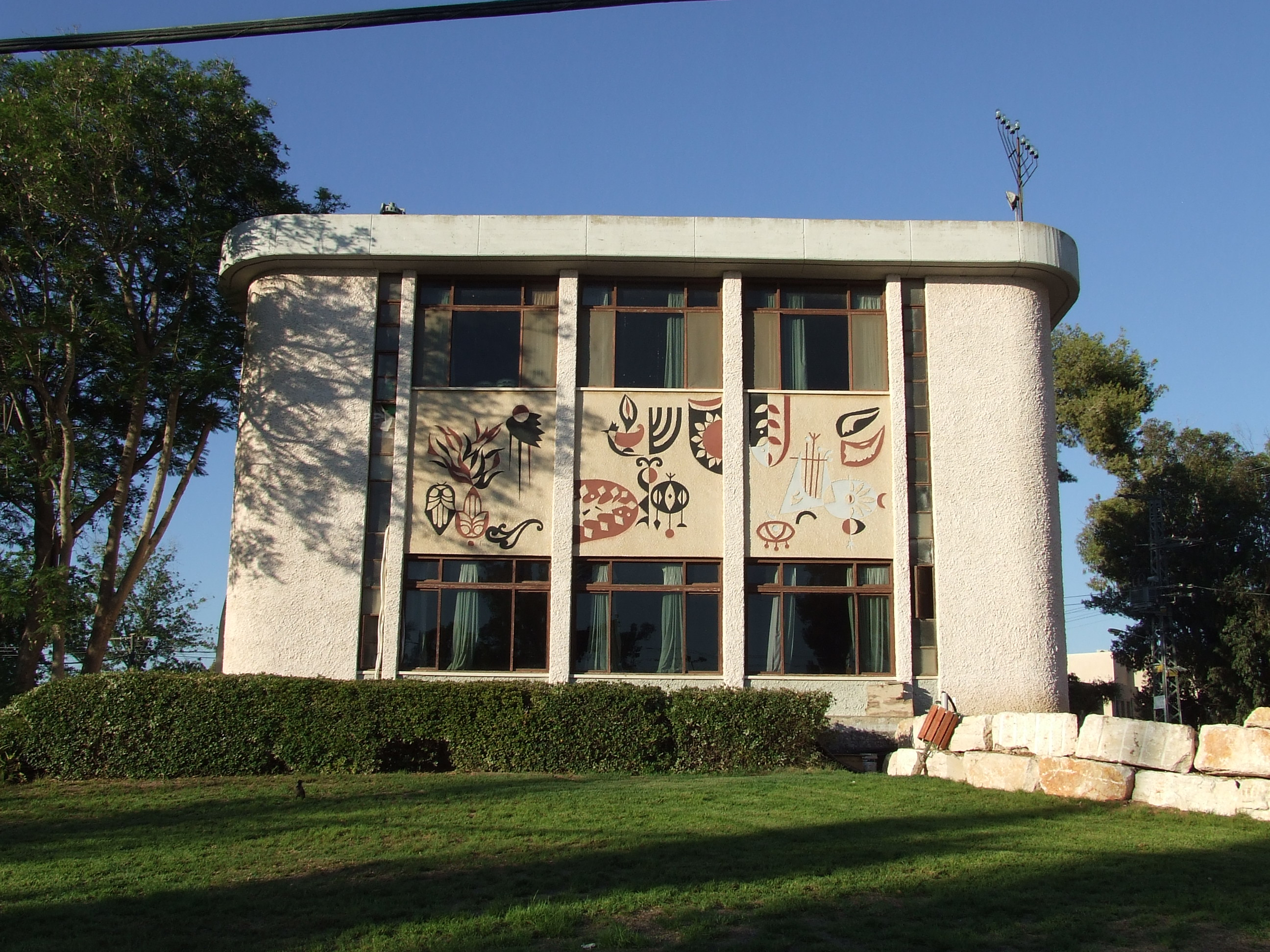 KFAR MAIMON, Religion in Israel